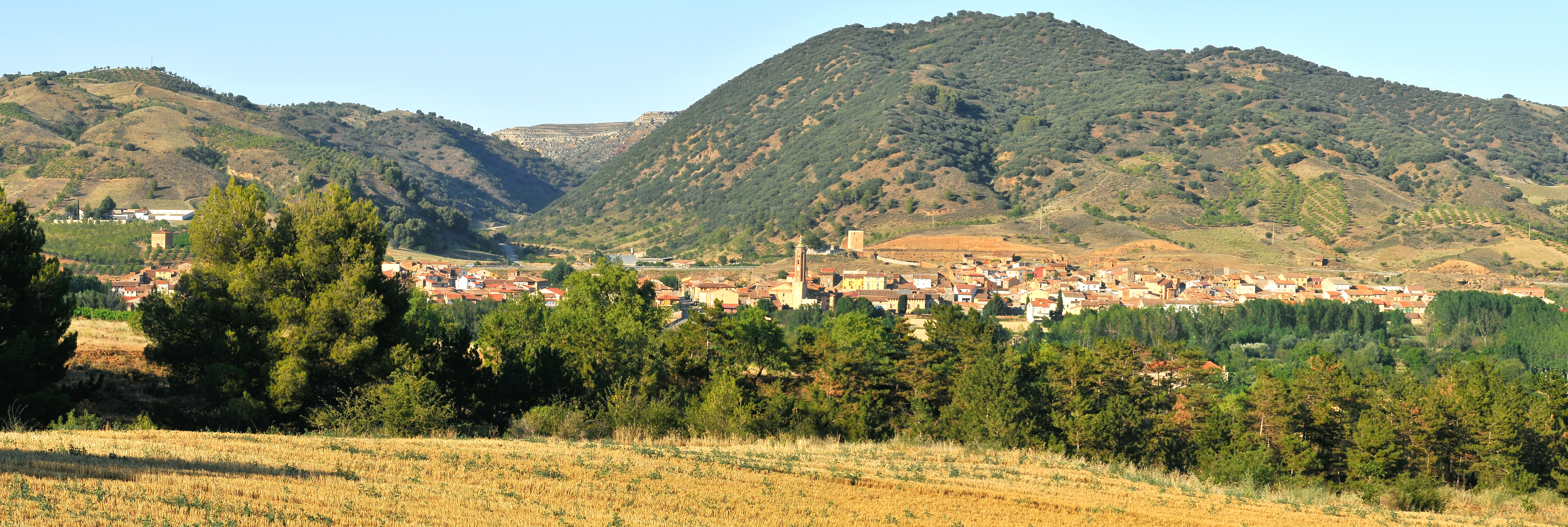 Panoramic of the village and its surroundings. Báguena, Teruel, Aragon, Spain